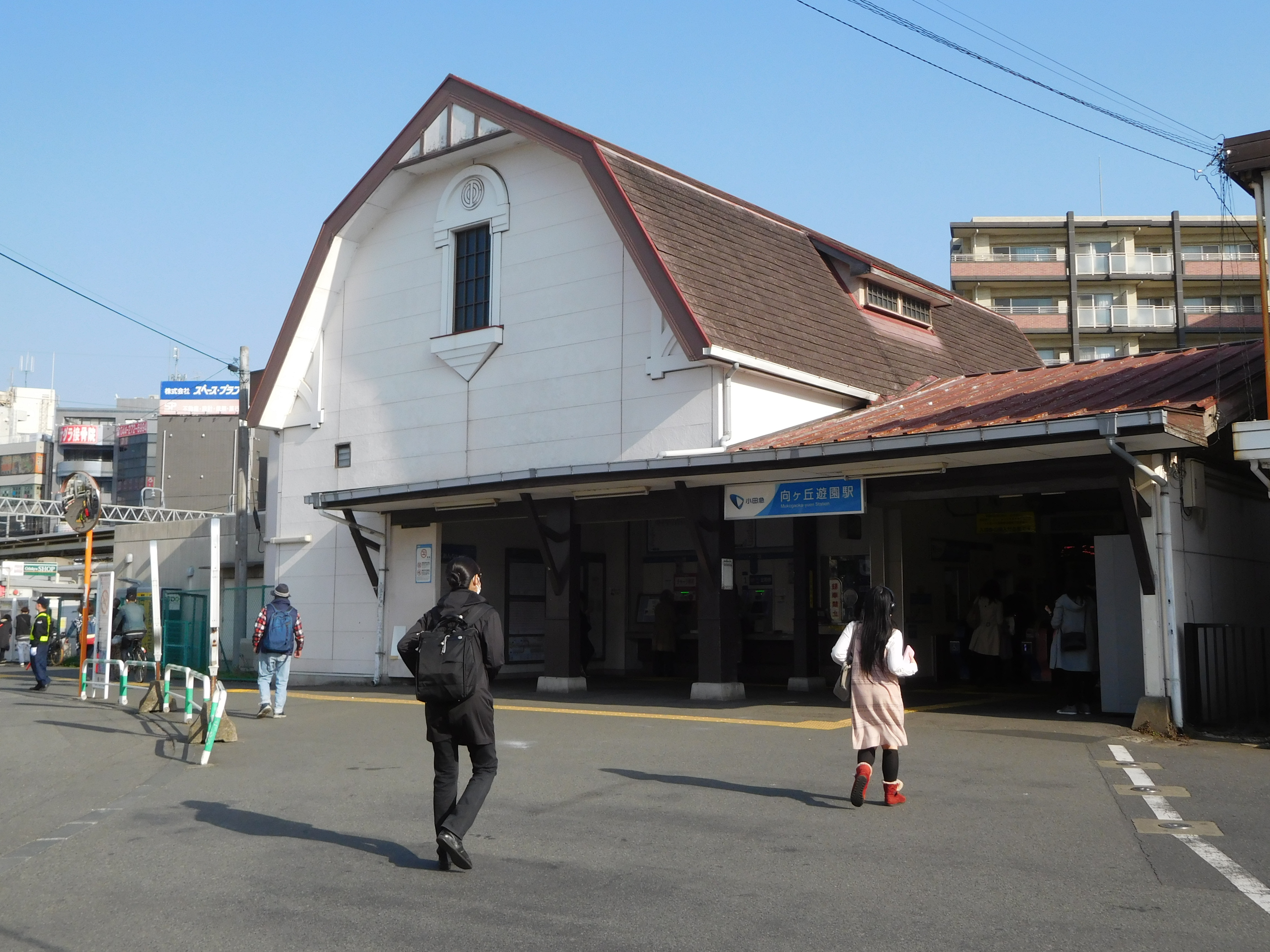 This is the north exit of Odakyu Line Mukogaoka-yuen station in Kawasaki, Kanagawa, Japan.